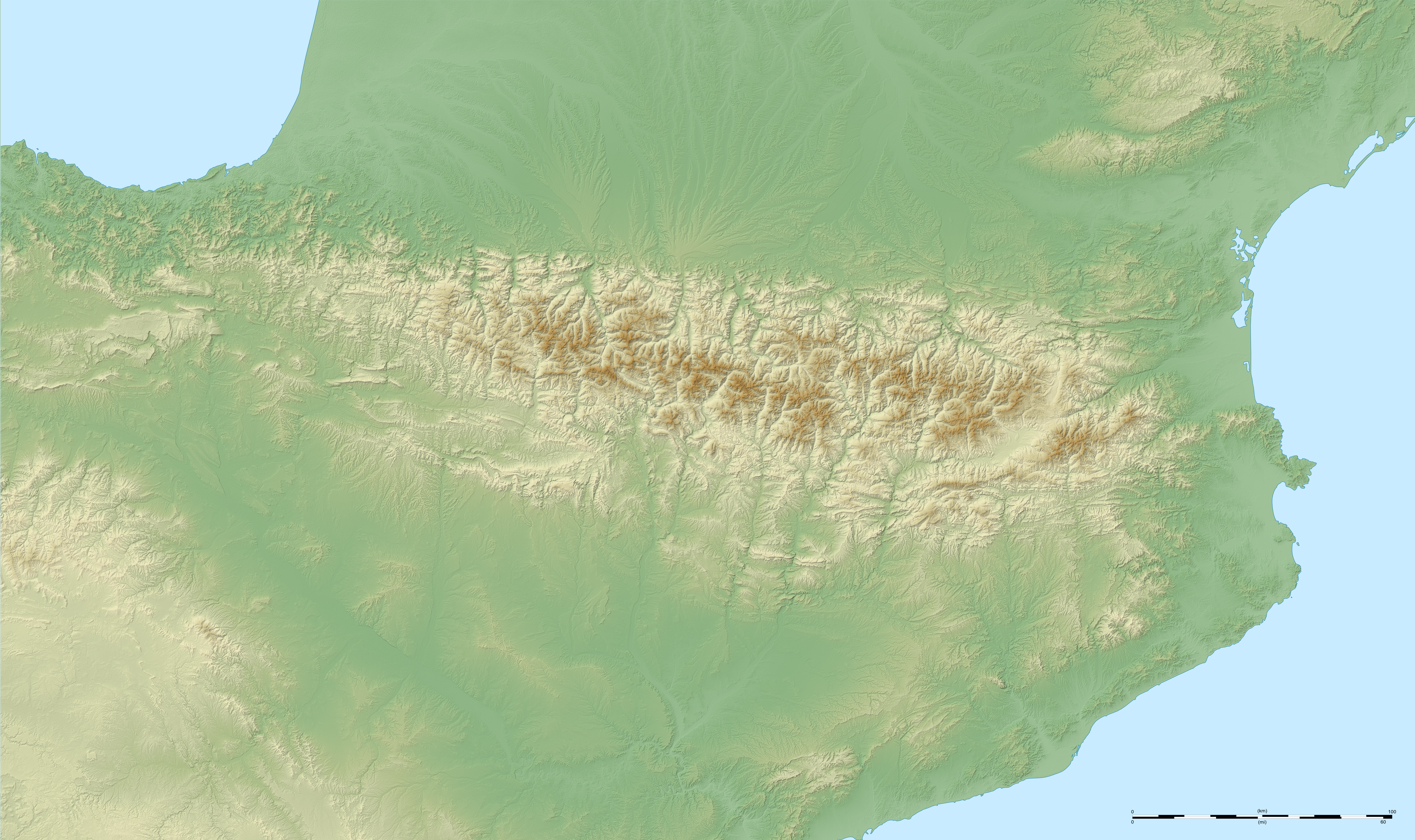 Large blank map showing the relief of the Pyrenees mountains.